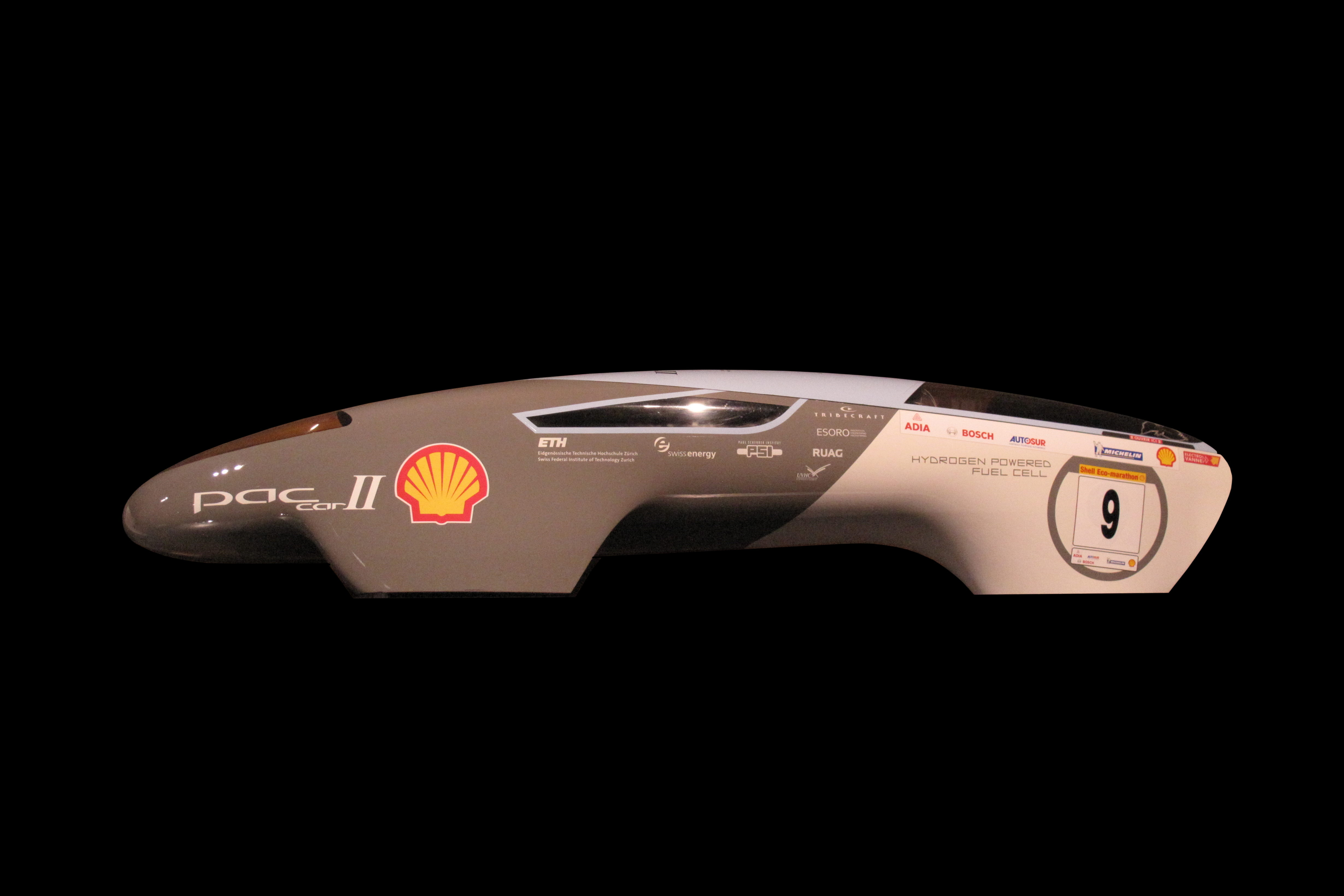 The Pac-car II, on display at Lucerne Transport Museum.